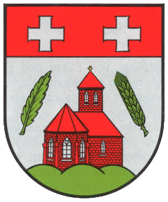 Coat of arms of the Town Völkersweiler